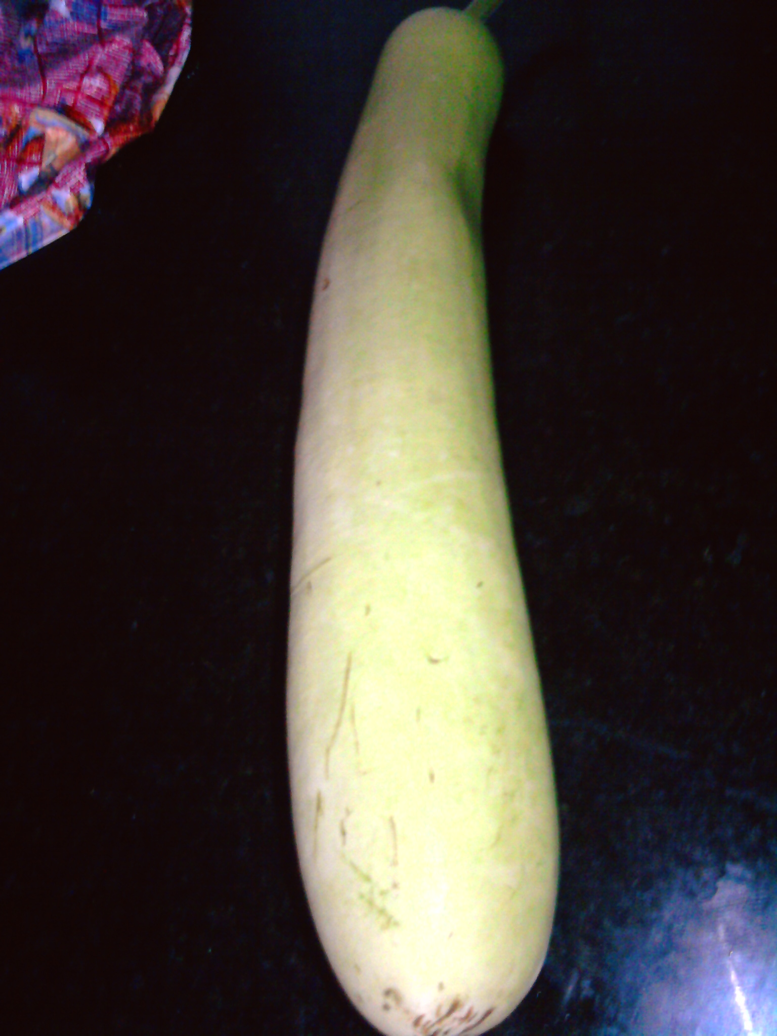 it is Calabash/ Bottle Gourd. its name sorakaya in telugu.